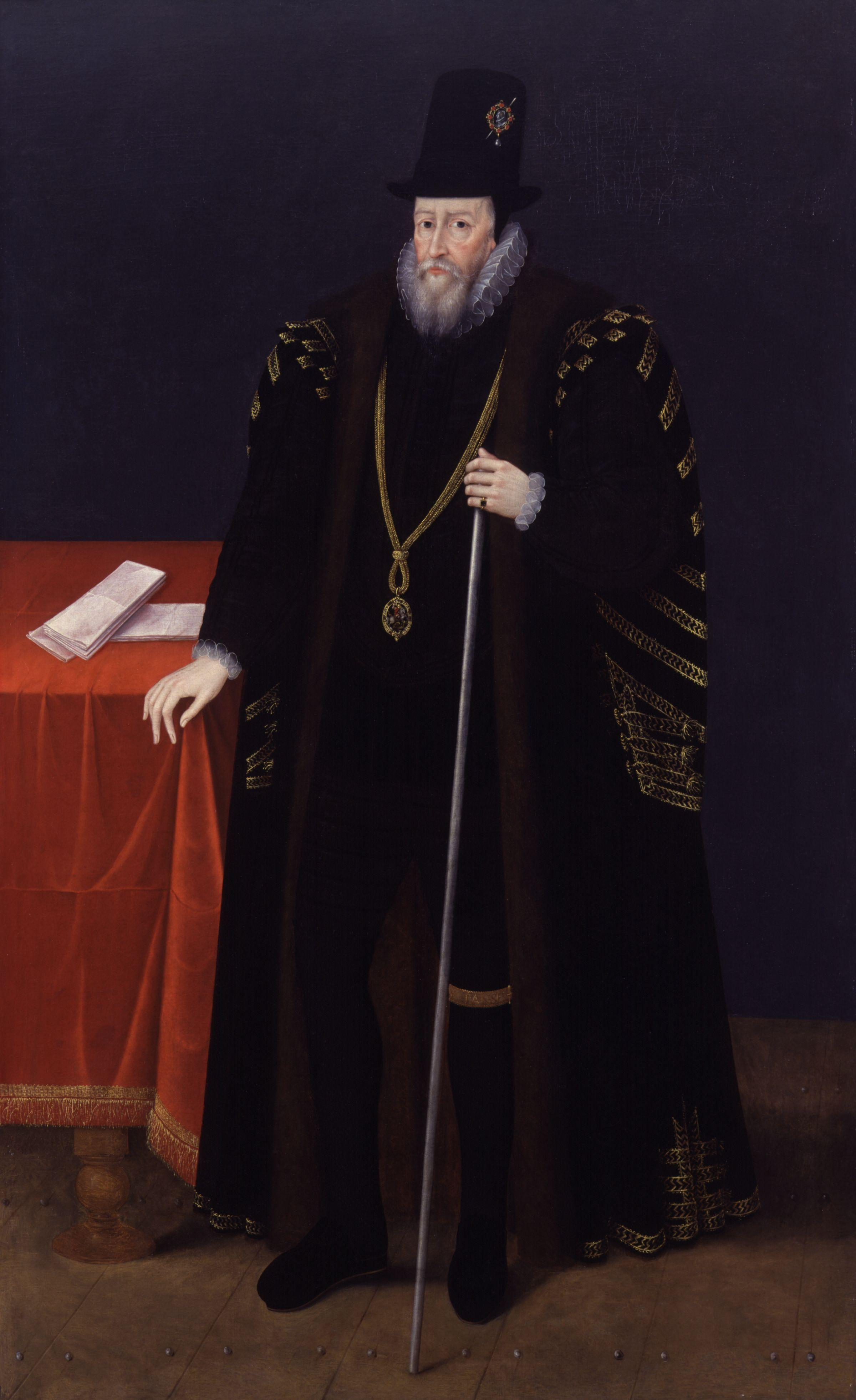 Portrait of William Cecil, 1st Baron Burghley (1520-1598)